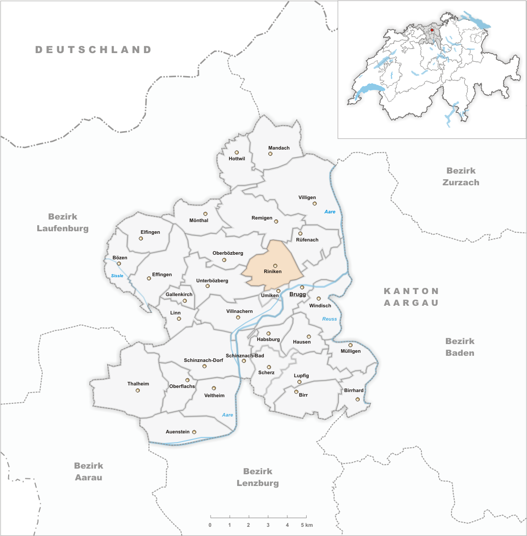 Municipality Riniken